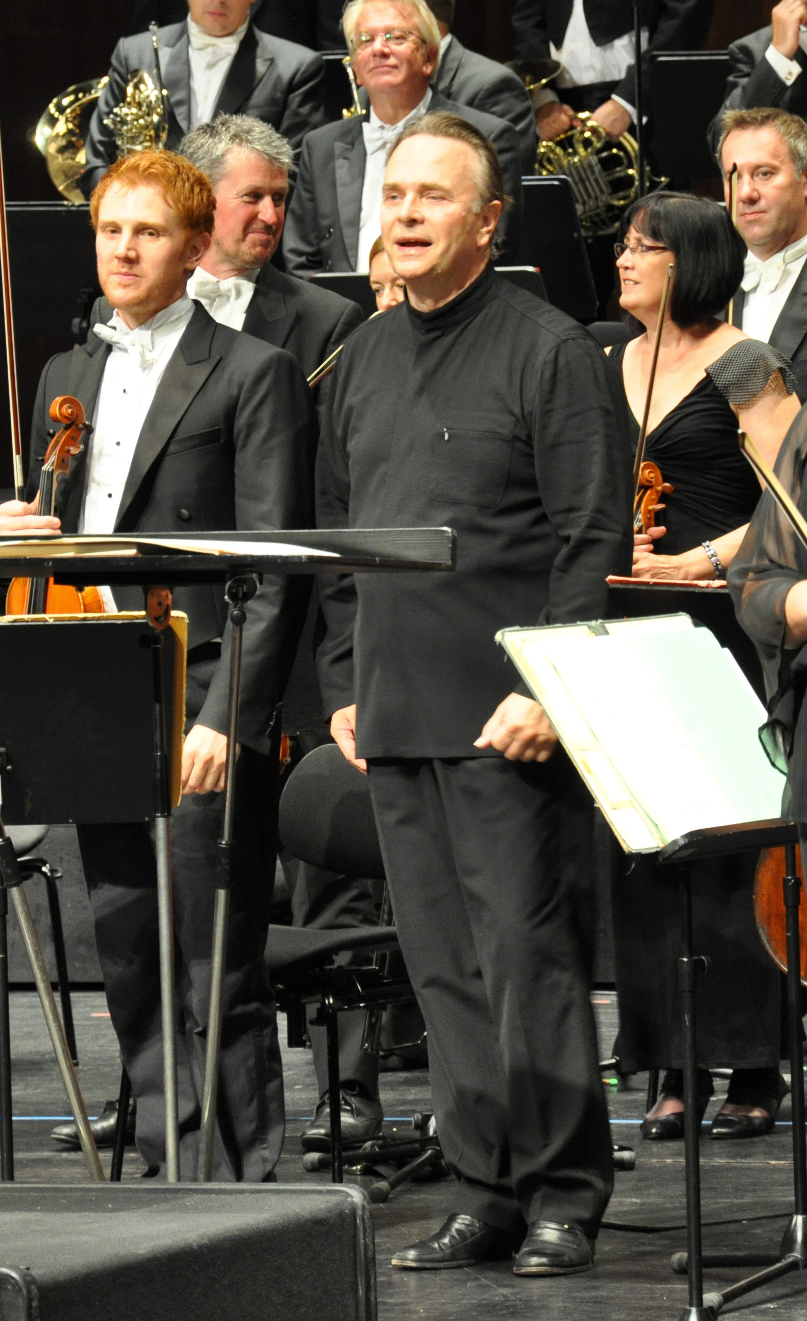 Conductor Mark Elder taking bows after a concert with the Hallé Orchestra, Bregenz Festival, Austria